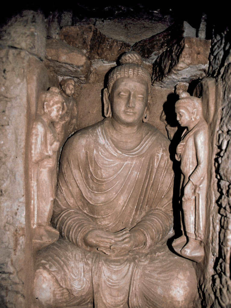 Meditating Buddha. Copy of the original : Stucco, 5th cent AC. at Jaulian archaeological site. Molding in Taxila museum. Punjab Province. Pakistan.